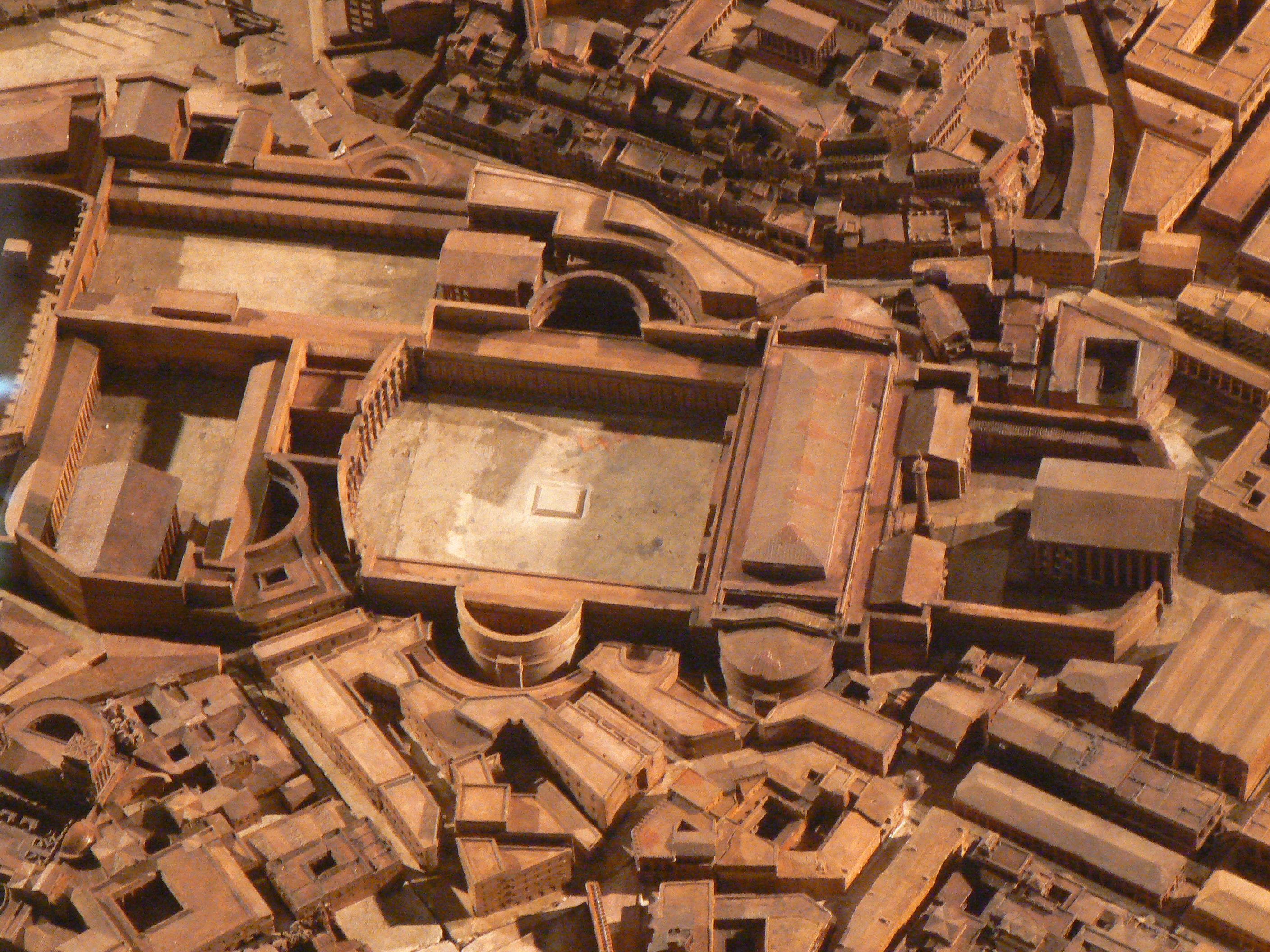 Model of Rome in the IVth century, by Paul Bigot in MRSH, caen University, area of Trajan's forum